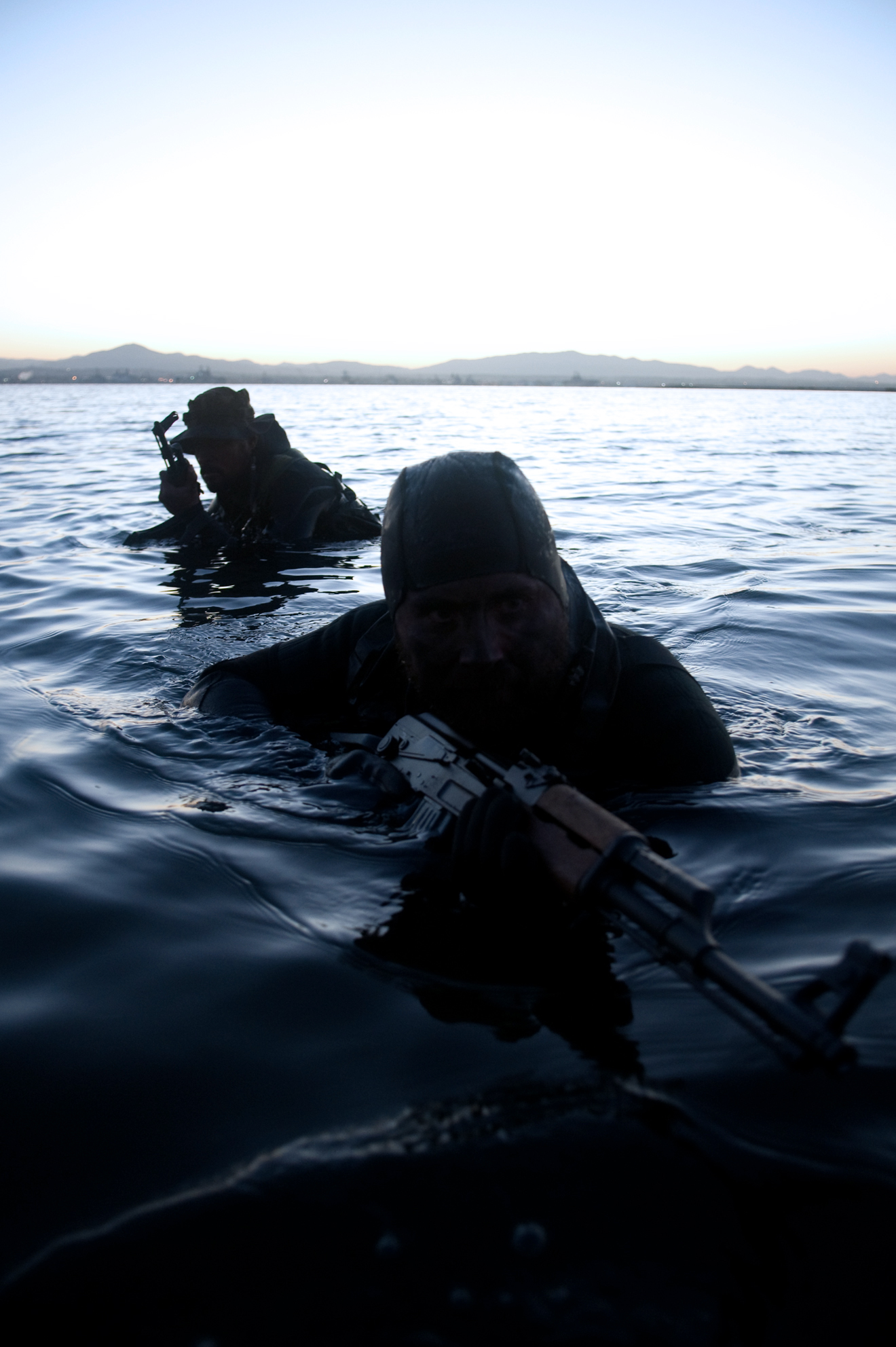 Promitinal picture: Seals sneaking to the beach.